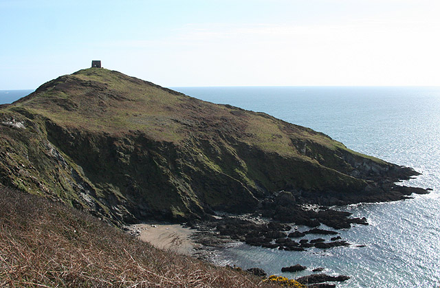 Maker with Rame: St Michael’s Chapel, Rame Head Seen from the South West Coast Path above Queener Point. A nearby information panel states: ‘St Michael’s Chapel on Rame Head was first licensed in 1397. It was a simple hermitage, lighthouse and look-out point. The banks of an Iron Age fort cut across the neck of land just below the chapel. Spectacular coastal scenery with views as far as the Lizard, 50 miles away, can be seen on clear days’